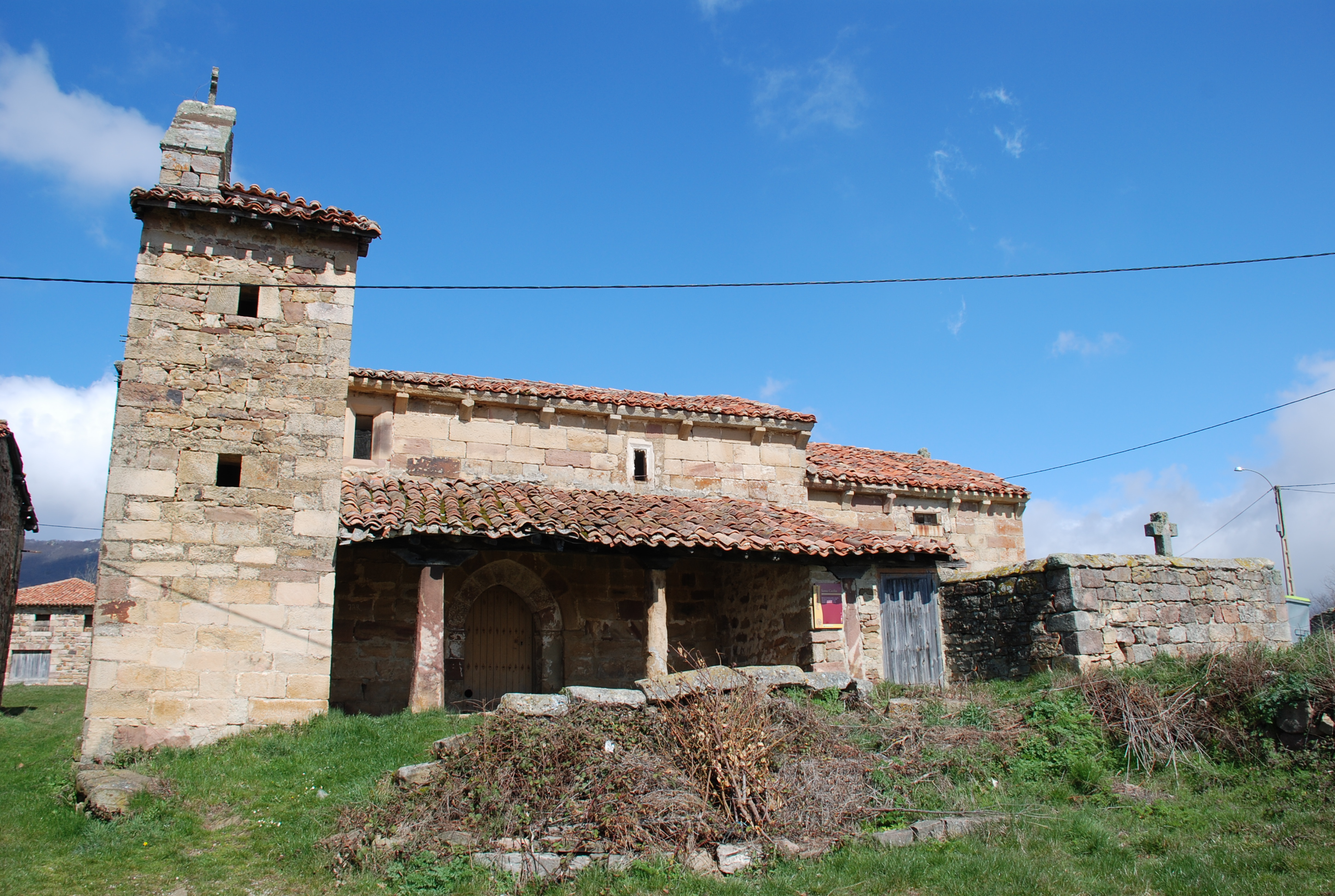 Church of Santa Cecilia in Santa María de Nava (Palencia, Castile and León). Transition to Gothic church and has a square head, a simple cover almost Lancet arch and a belfry surmounted by a cross.